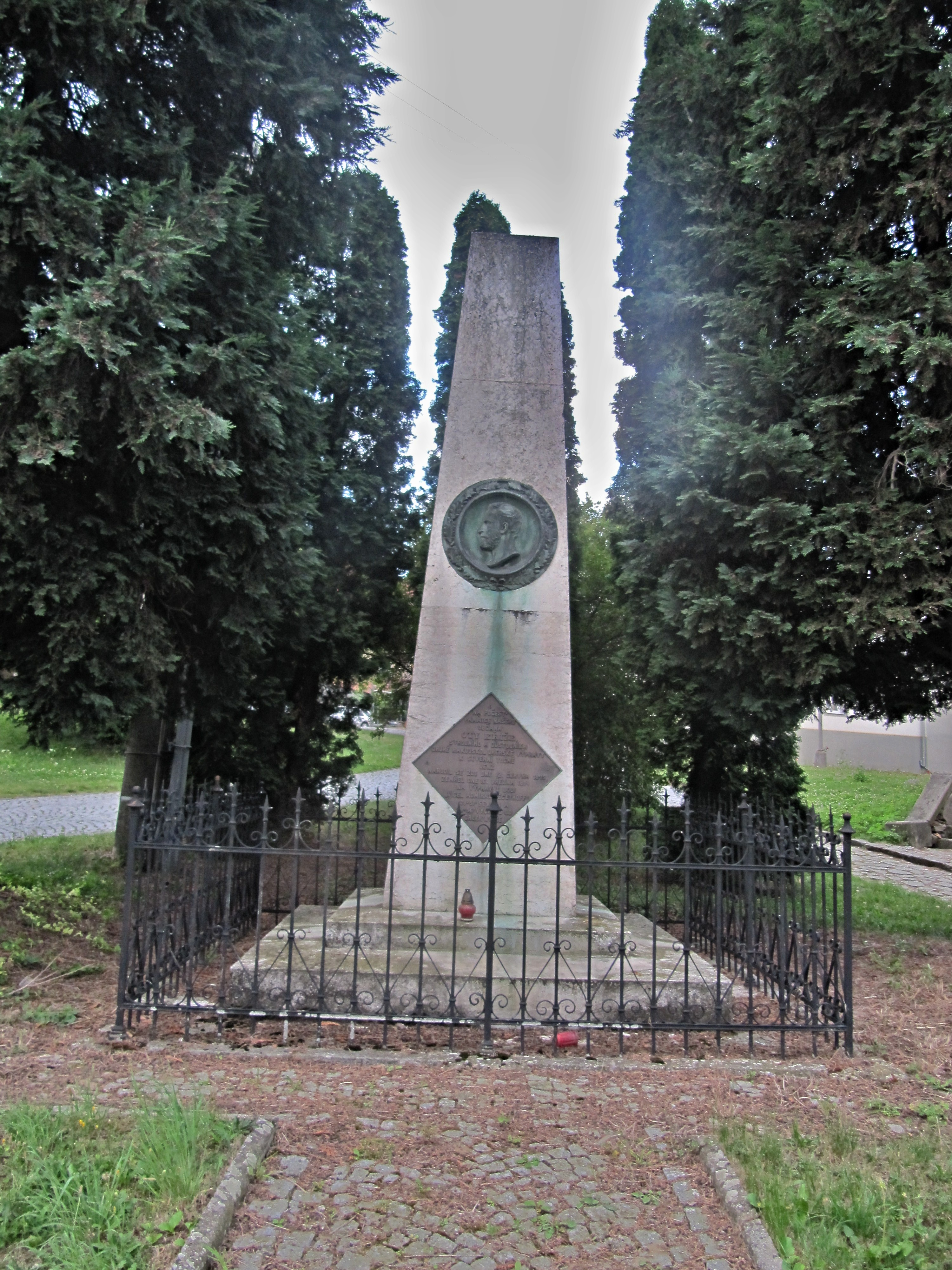 Pačlavice, Kroměříž District, Czech Republic.